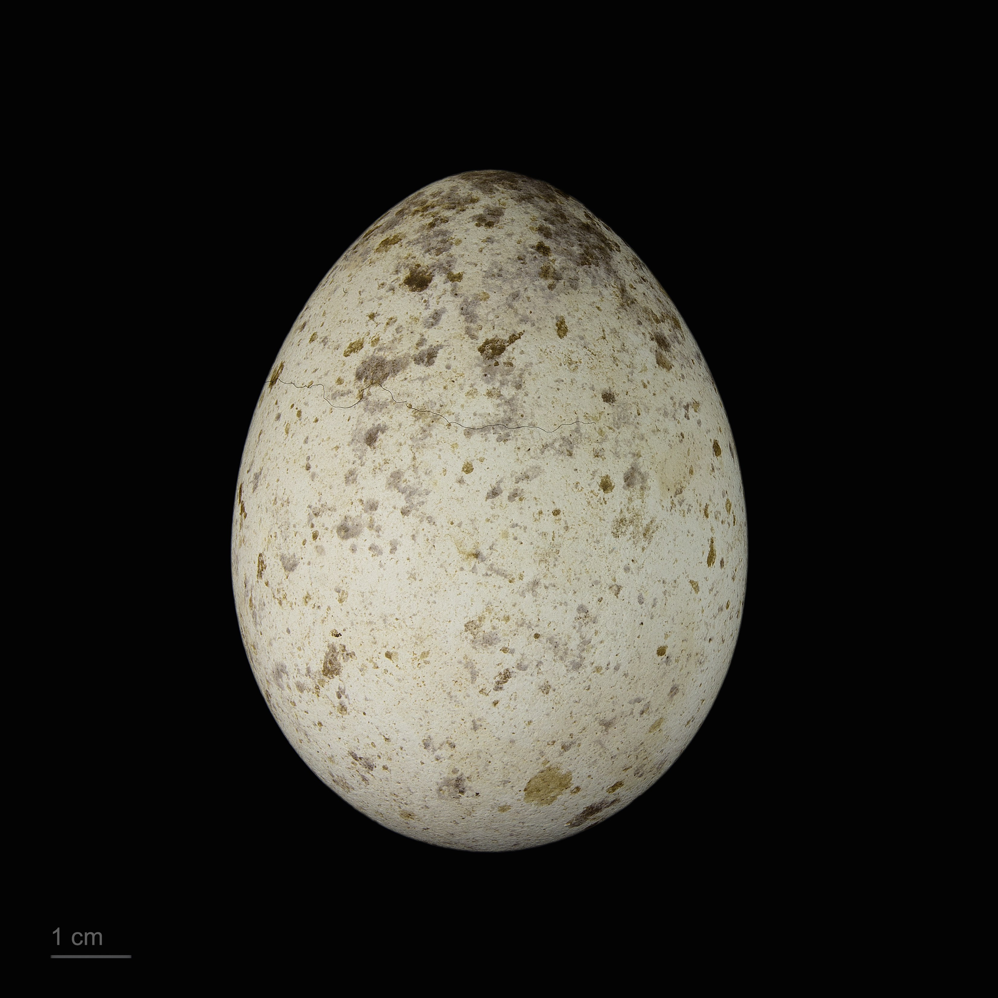 Eggs of Spanish imperial eagle collection of Jacques Perrin de Brichambaut.